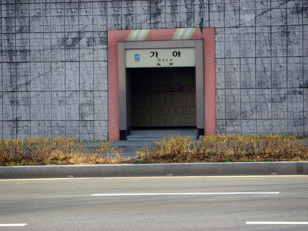 Gaya Station Enterance (Busan Subway #2)